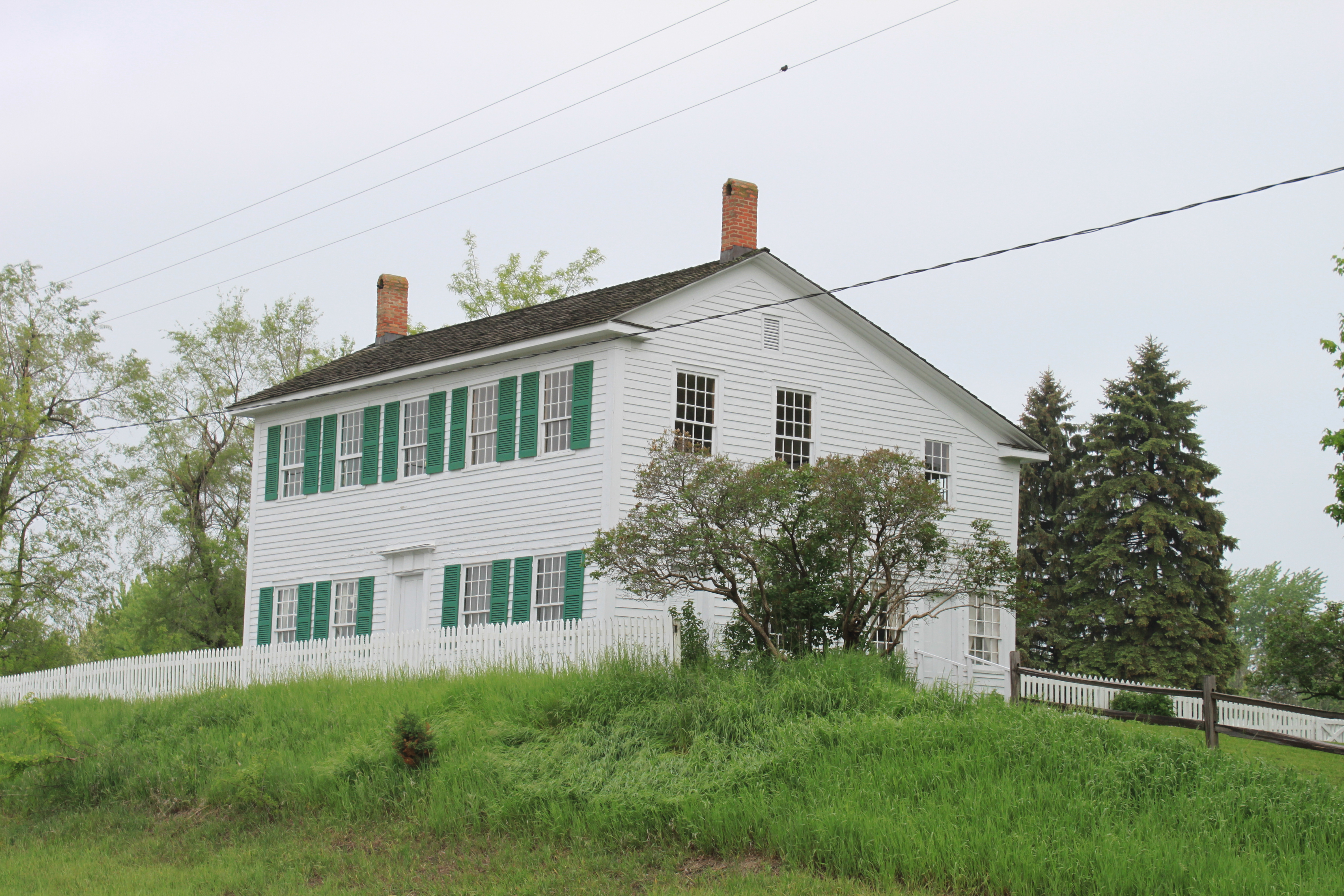 Walker's Tavern at Cambridge Junction Historic State Park, Brookly Michigan